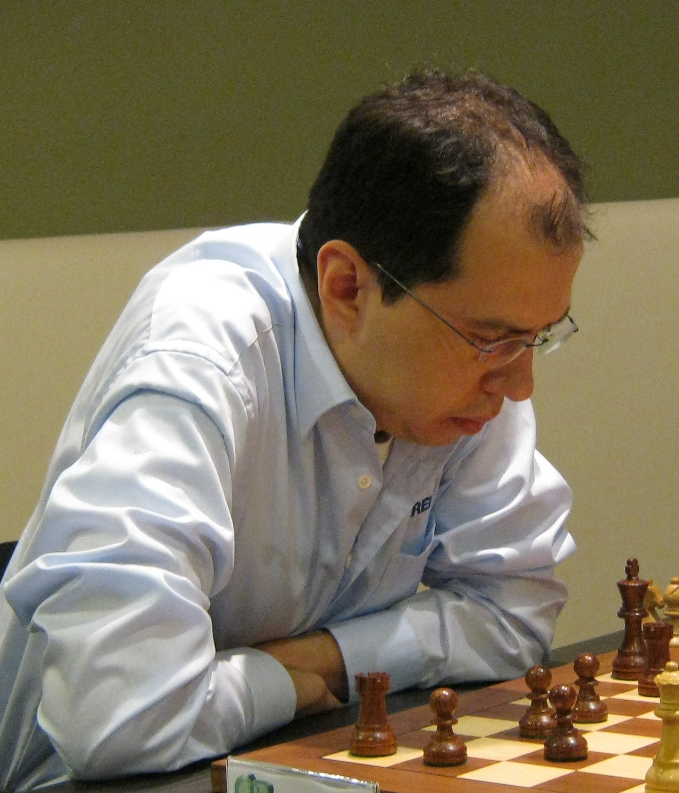 Rustam Kasimdzhanov, chess grandmaster from Usbekistan